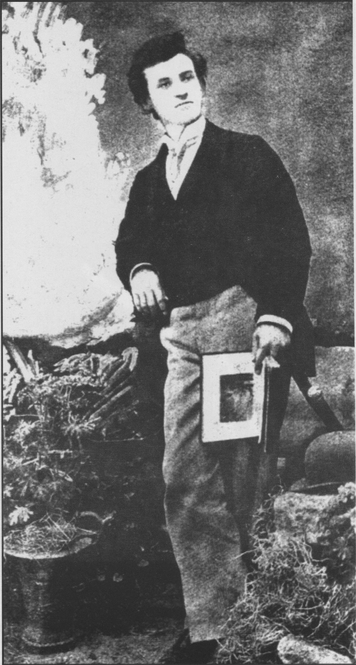 Ivan Tolev in 1894